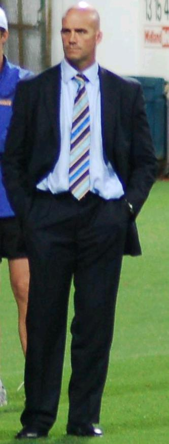 John Mitchell